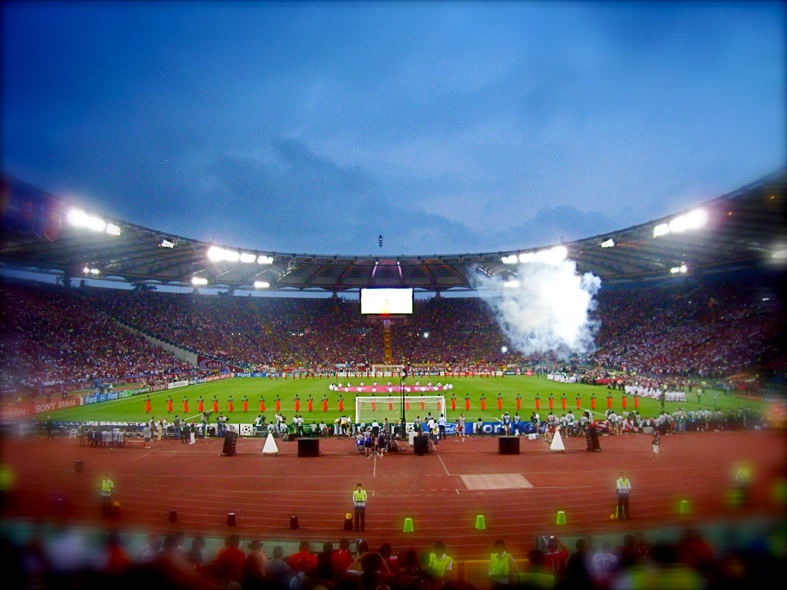 The opening ceremony of the 2009 UEFA Champions League Final between FC Barcelona and Manchester United FC on 27 May 2009